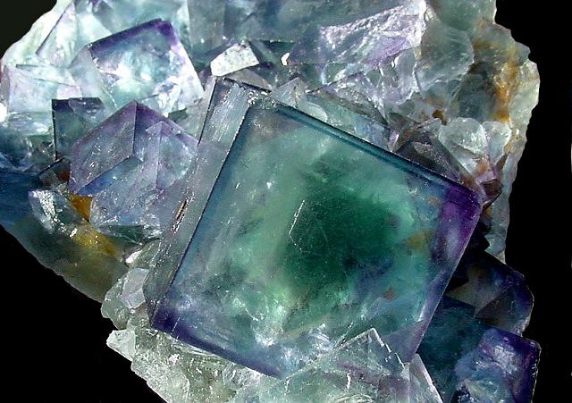 My work i took with my camera and edit it